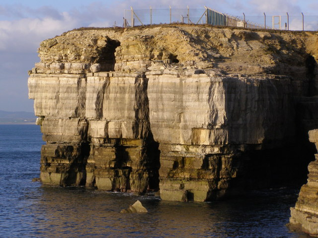 Cliffs at the north end of White Hole White Hole is a shallow embayment to the north of Pulpit Rock on the west side of the Bill of Portland. The fenced-off military area sits on top of raised beach deposits from the end of the last ice age. The geological succession can be seen in these cliffs :the reddish undercut Portland Cherty Series close to sea level, then the light grey Portland Freestone, then the thin-bedded limestones of the Basal Purbeck Caps.